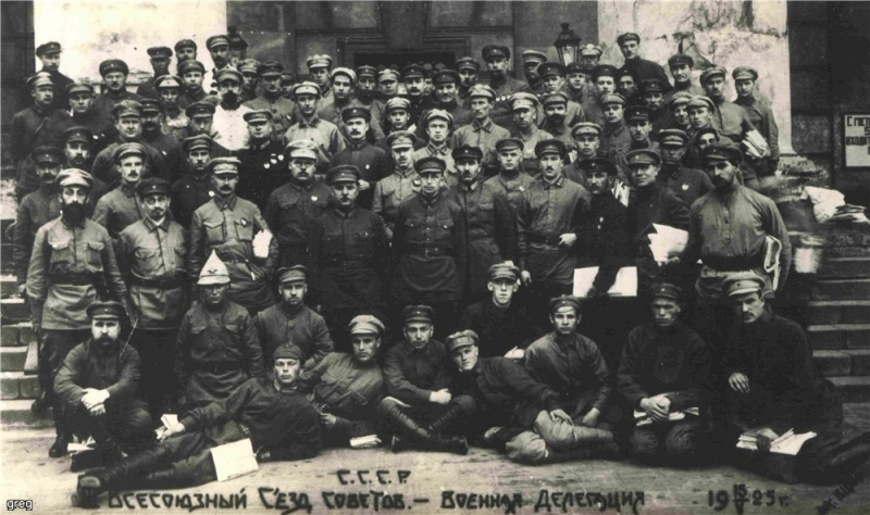 Military delegates at the Congress of Soviets of the Soviet Union. at center: Kliment Voroshilov, right behind Voroshilov is Yan Fabrizius.